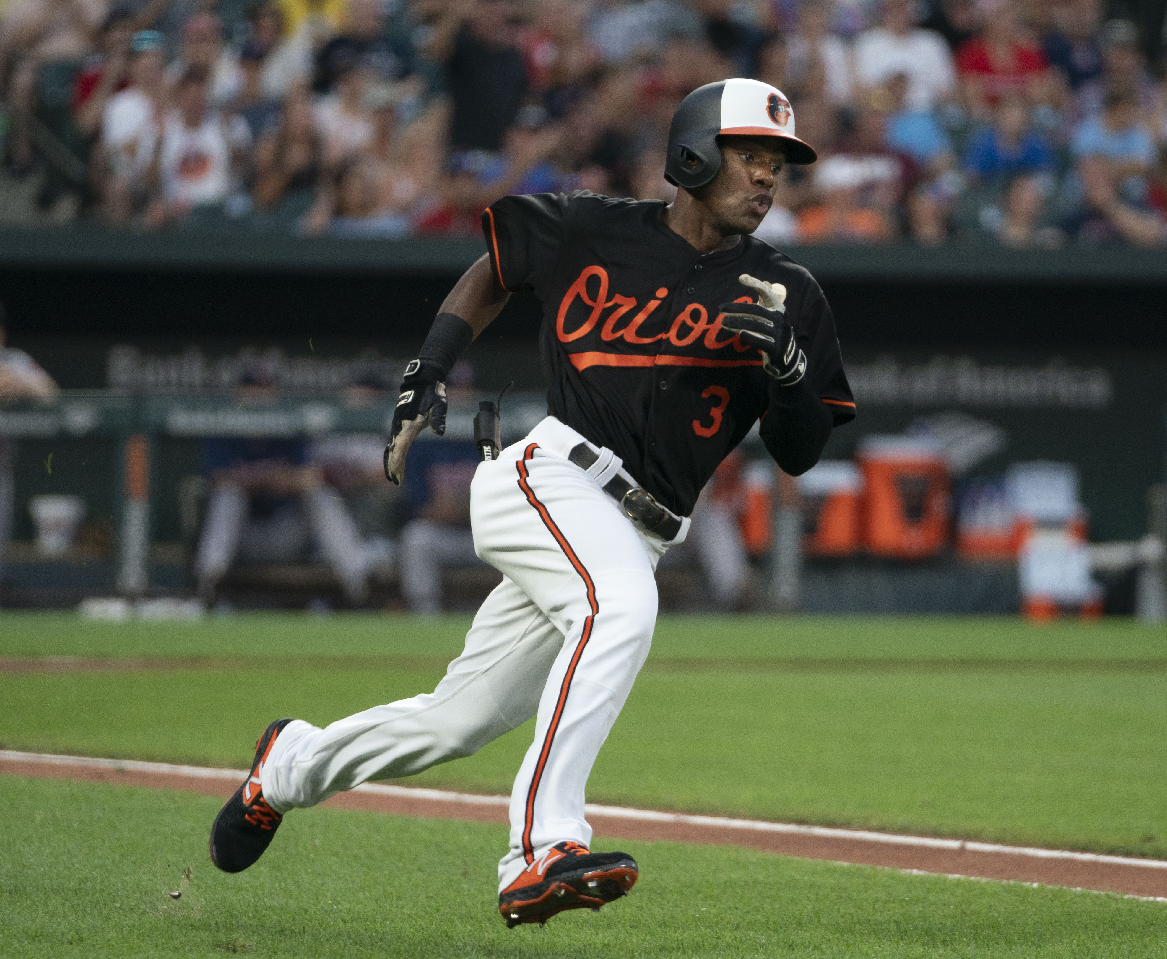 Red Sox at Orioles 8/10/18